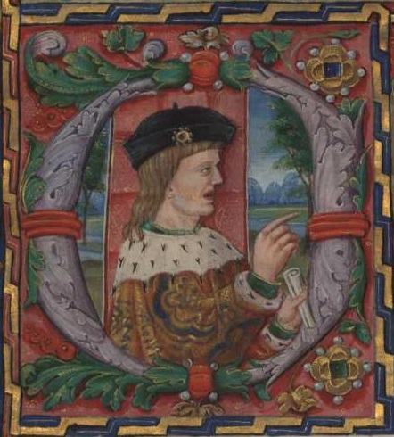 Manuel I of Portugal, in a miniature from the frontispiece of the "Livro 1 de Além Douro" of the Leitura Nova (penned 15??-1521).